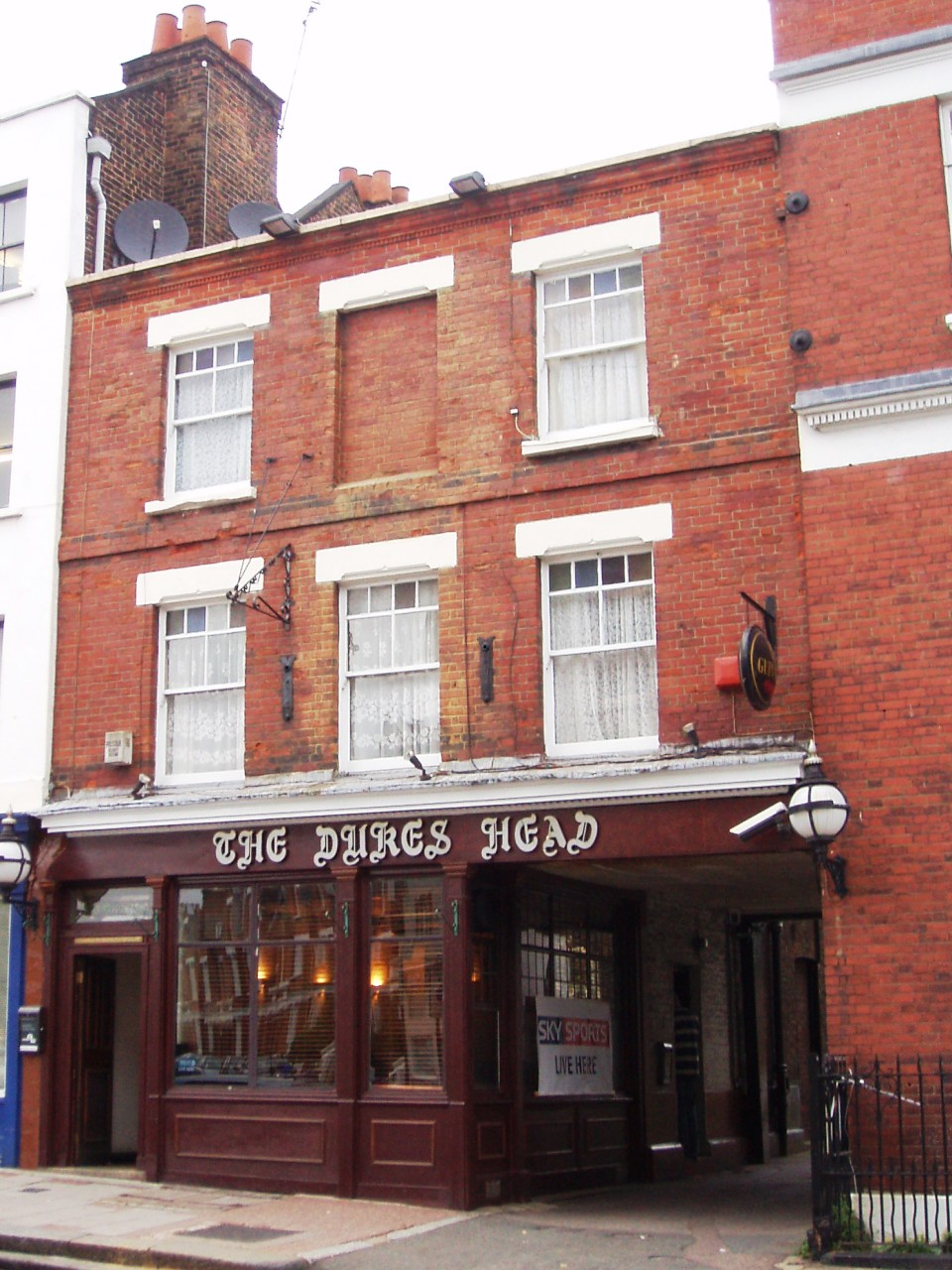 A simple looking pub on the High Street, which closed for a bit before reopening. Address: 16 Highgate High Street. Links: London Pubology